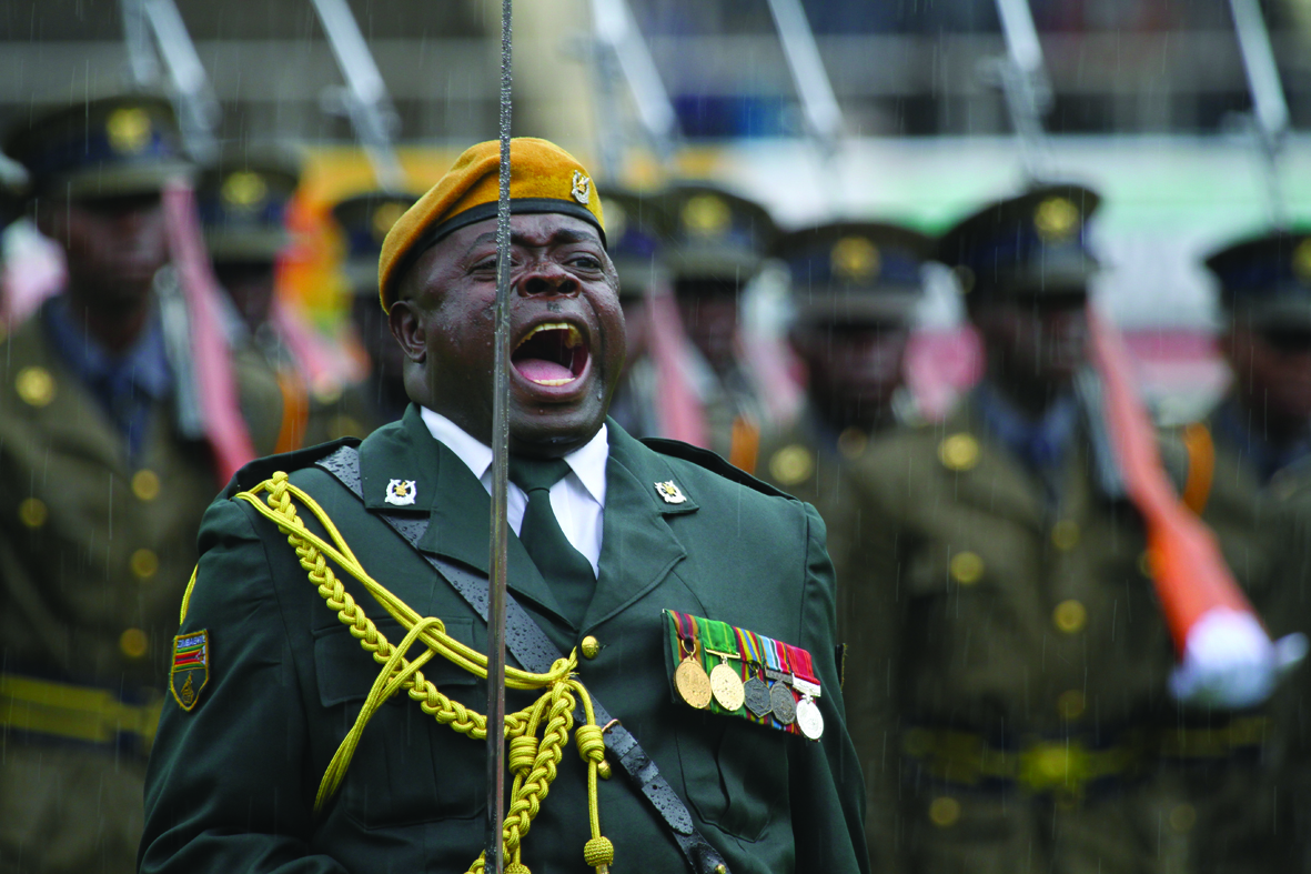 image of a zimbabwean soldier braving the cold summer rains during a national ceremony This is an image of "African people at work" from Zimbabwe